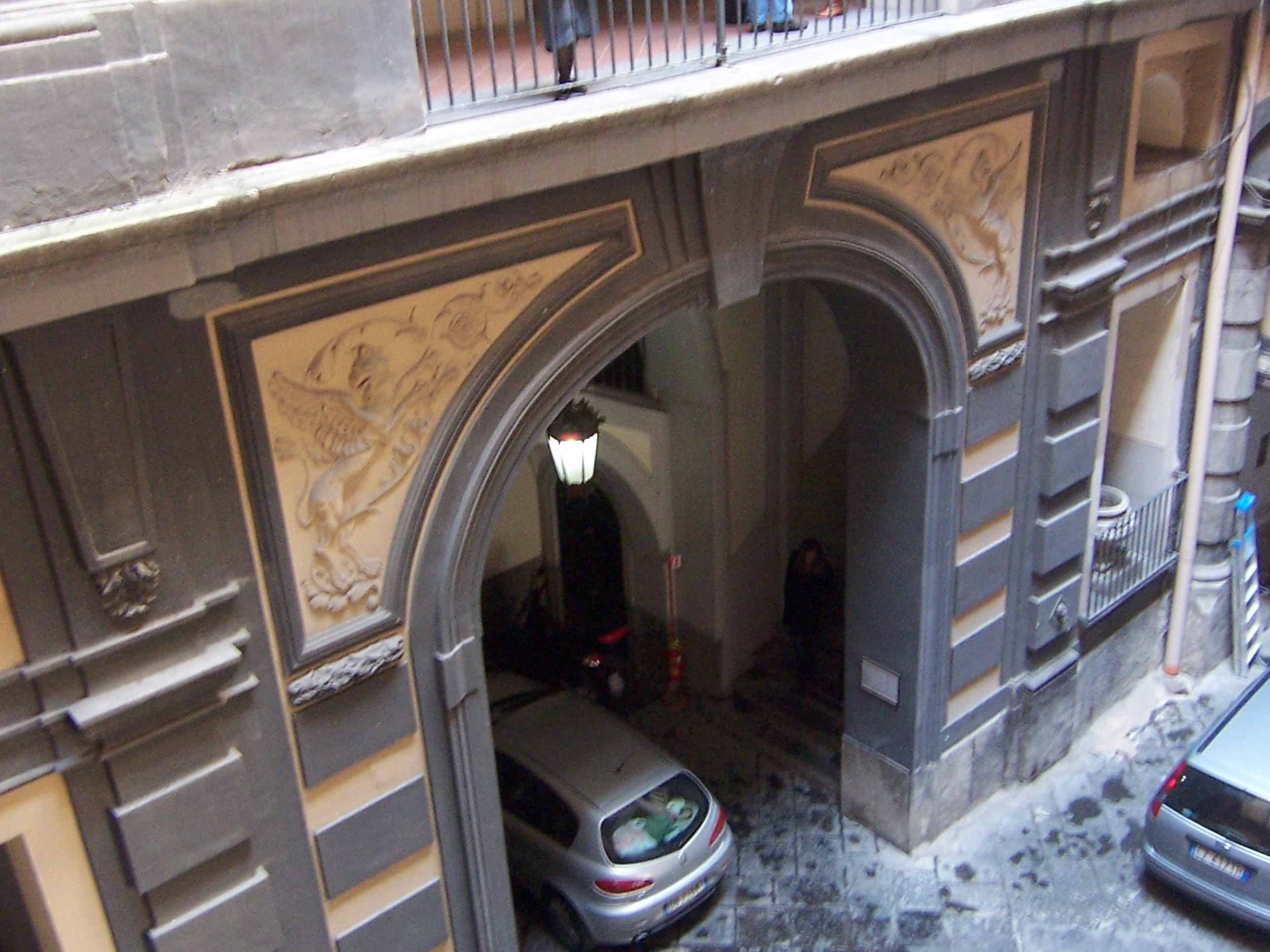 Palazzo Cavalcanti in Naples